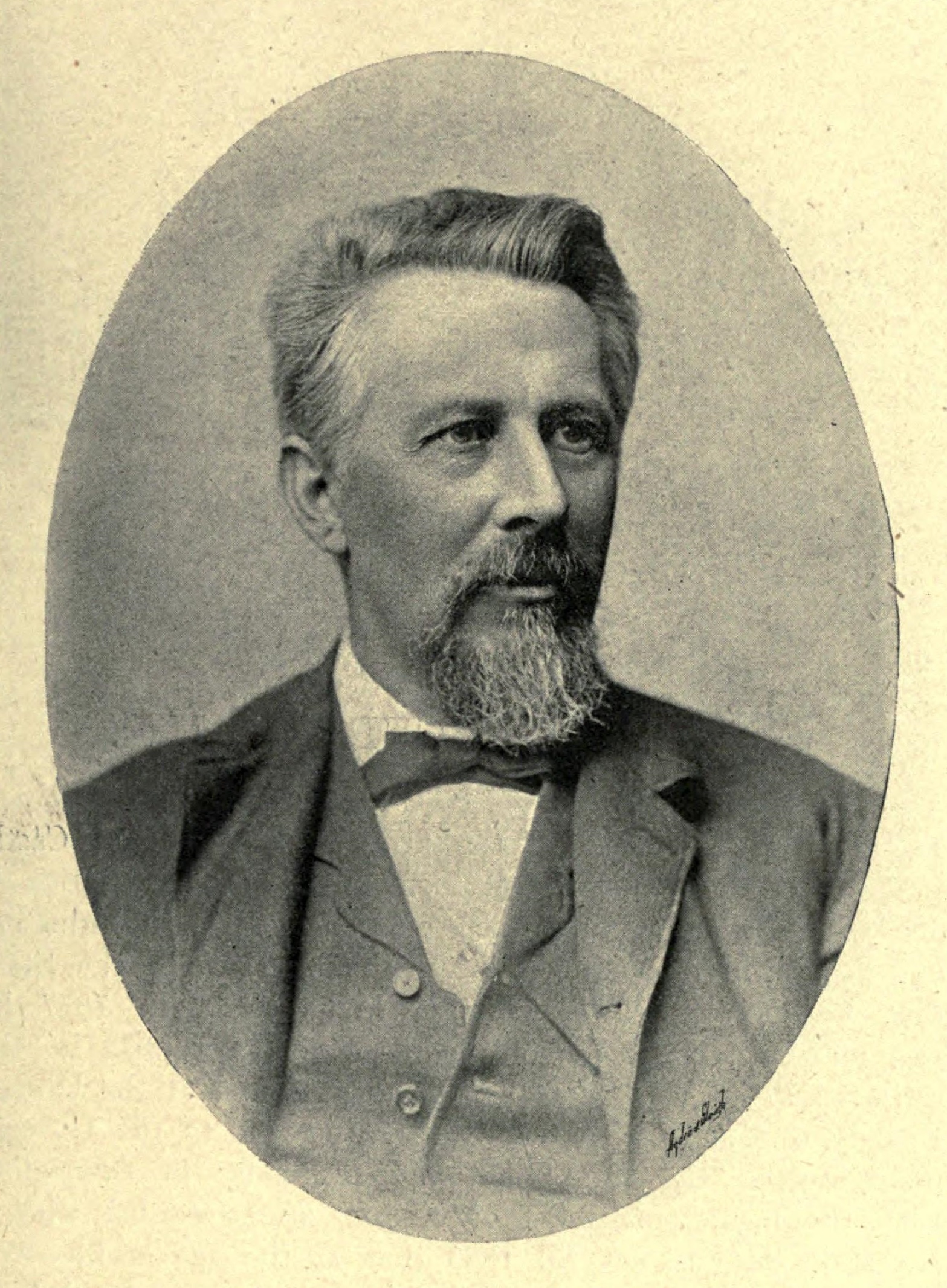 Portrait of Edward Dowden